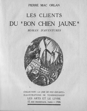 frontispice of book by Pierre Mac Orlan